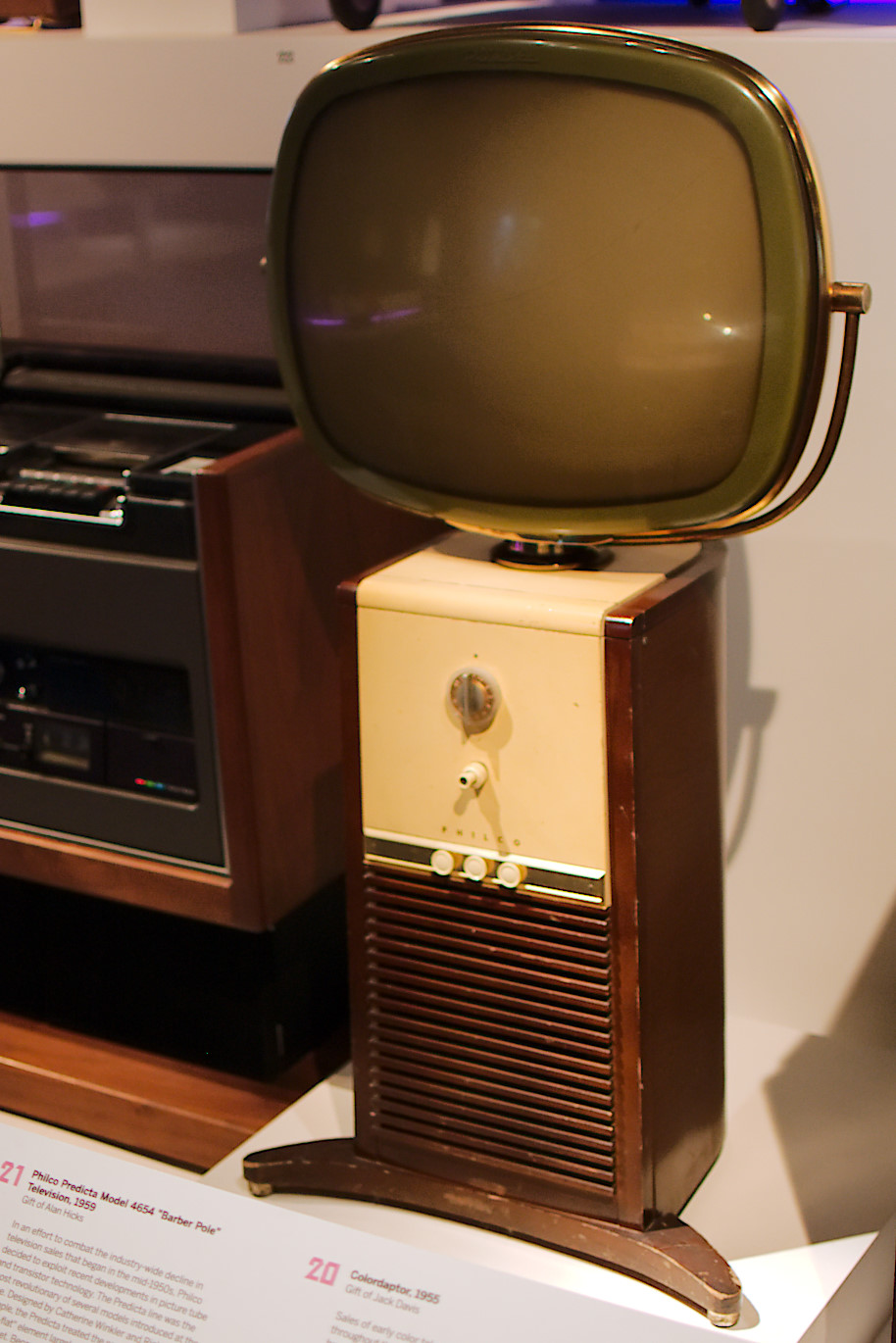 Philco Predicta 4654 television set, produced in 1959